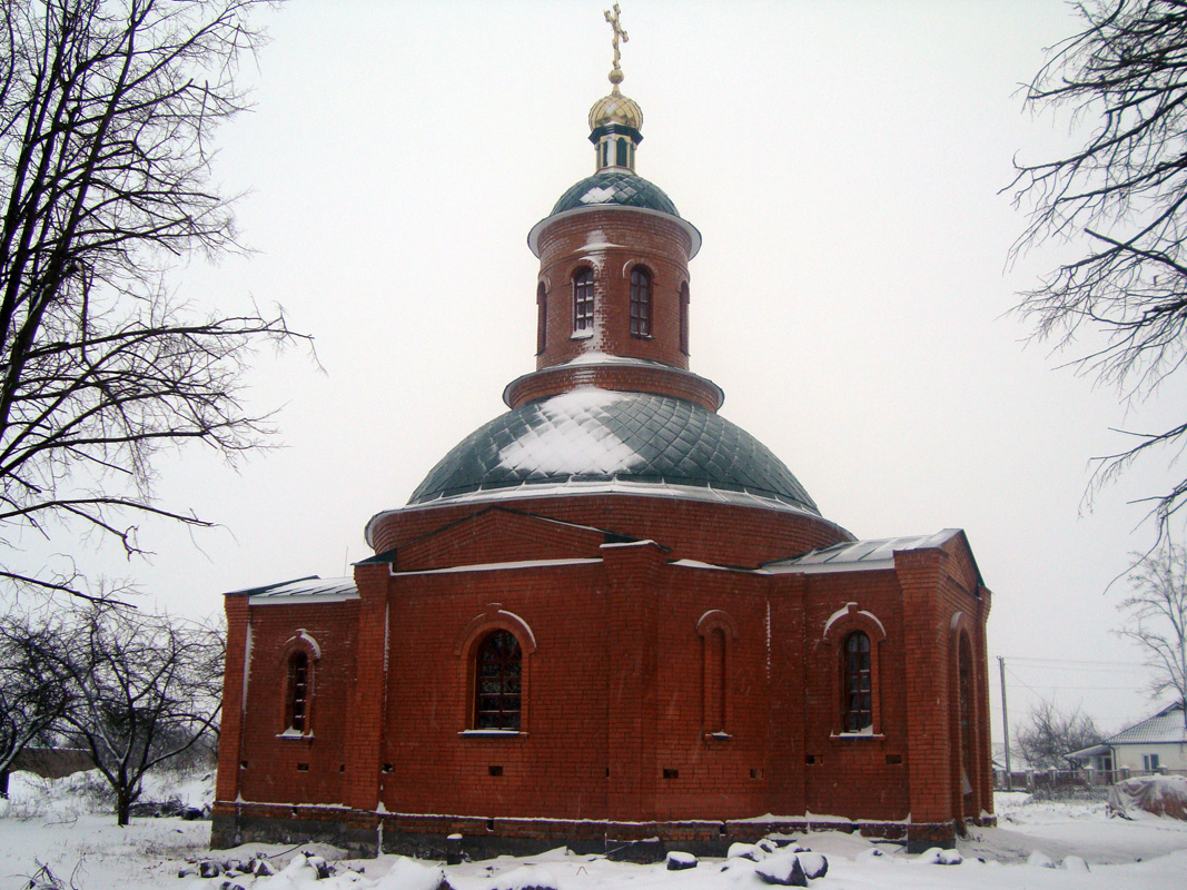 St. Nicholas Church — Russian Orthodox church in Ladyzhynka, Umanskyi Raion, Cherkasy Oblast, Ukraine. Built of brick, in the Russian Revival style.